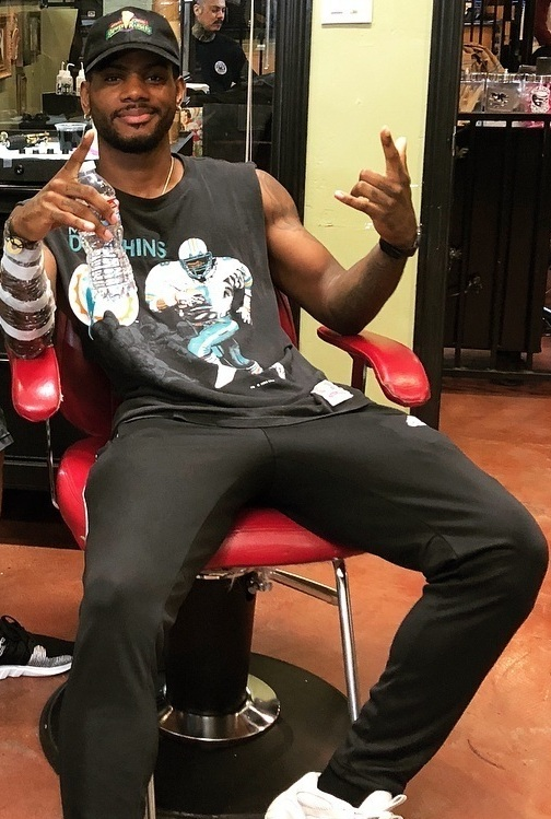 Bryson Tiller in June 2018